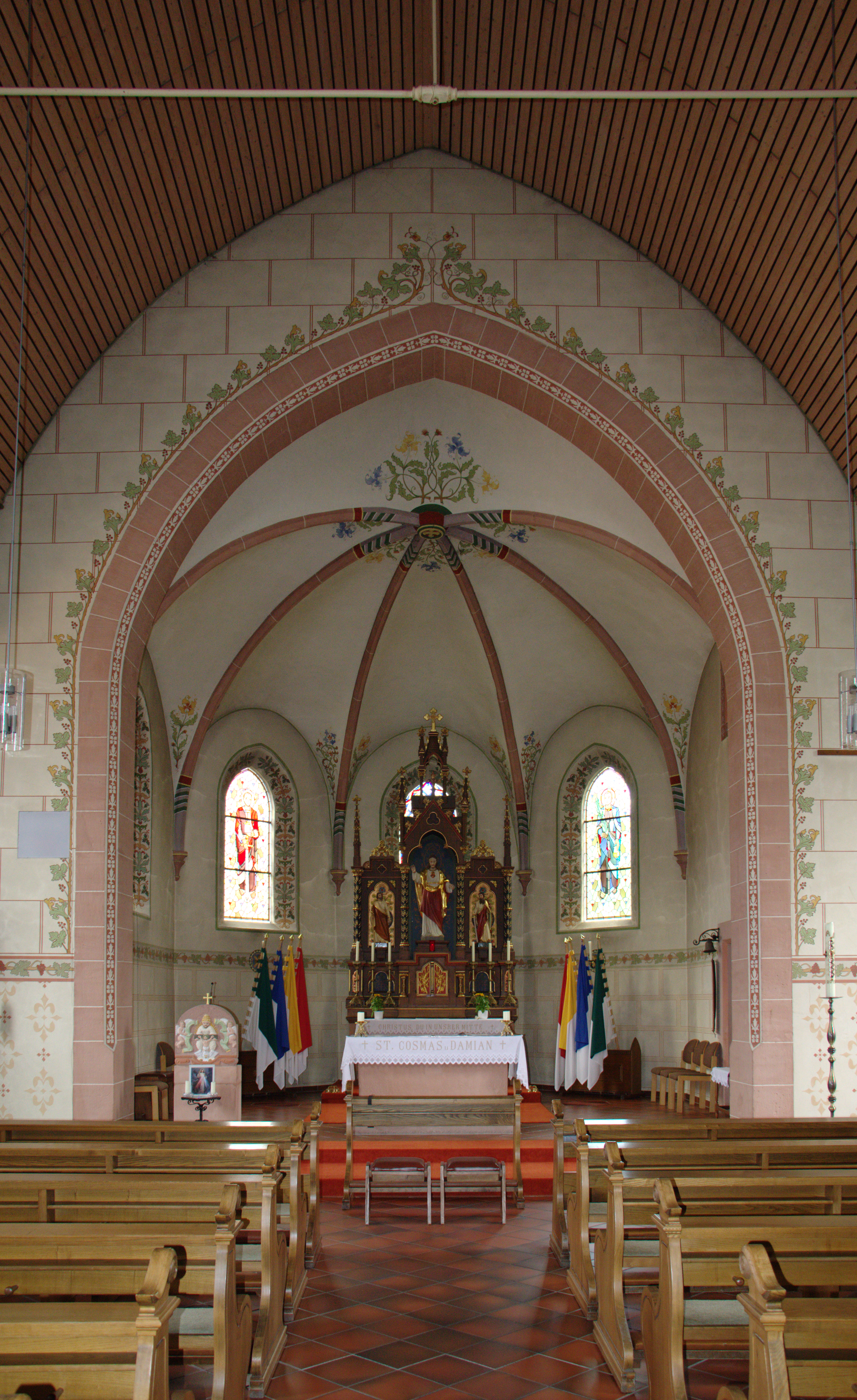 Saints Cosmas and Damian church in Hattenhof, Neuhof, Hesse, Germany